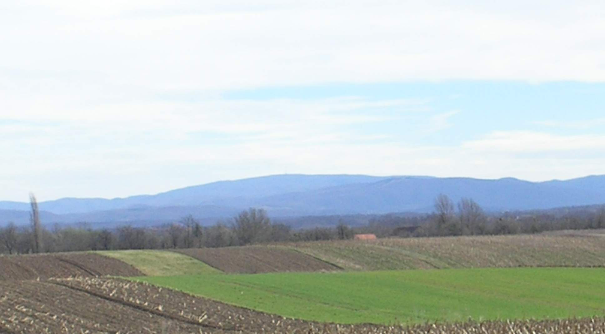 Mountain Papuk, Croatia